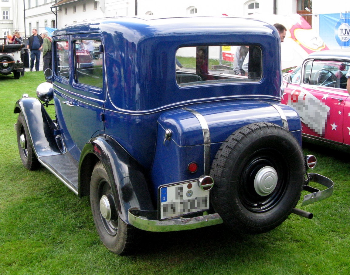 1934 Renault Monaquatre YN1 at vintage vehicles show in Fürstenfeld (Bavaria)